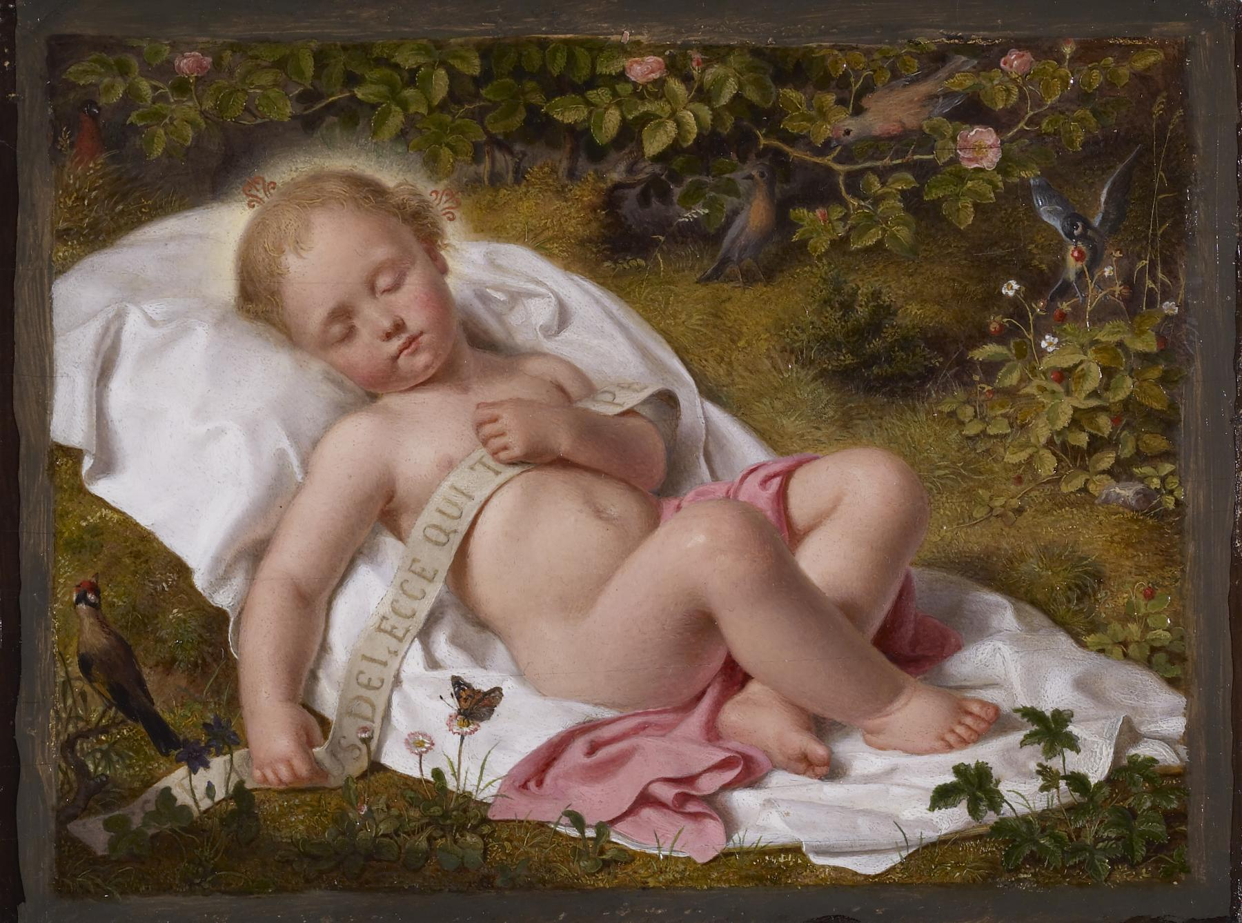 The sleeping child lies on a sheet of white cloth partially covered by a pink cloth. He is identified by the aureole of light and three stylized rays forming a halo and by the ribbon he holds which is inscribed: [AGN] US DEI ECCE QUI T[OLLIS PECCATA MUNDI: MISERERE NOBIS] (Roman Missal, Communion: 3). He is surrounded by meticulously rendered flora and fauna, laden with Christian symbolism. The rose bushes allude to martyrdom, strawberry plants to perfect righteousness, violets to humility, several stalks of wheat to the human nature of Christ, some daisies to his innocence, the butterfly to the Resurrection, the goldfinch to the Passion, the pair of turtle doves to purity, and the swallow to the Incarnation. This painting replicates a section of an unlocated picture the Virgin and Saint John accompanied by three angels adoring the Christ Child, which was reproduced as a steel engraving by Wm. Ridgway in a Bible published by James S. Virtue, London, n.d.